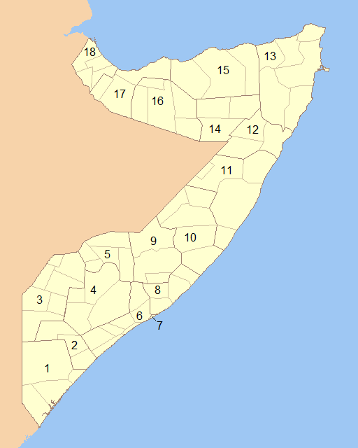 Blank map of Somalia showing the regions (numbered) and districts in detail together. 1- Lower Juba 2- Middle Juba 3- Gedo 4- Bay 5- Bakool 6- Lower Shabele 7- Banaadir 8- Middle Shabele 9- Hiiraan 10- Galguduud 11- Mudug 12- Nugaal 13- Bari 14- Sool 15- Sanaag 16- Togdheer 17- Woqooyi Galbeed 18- Awdal